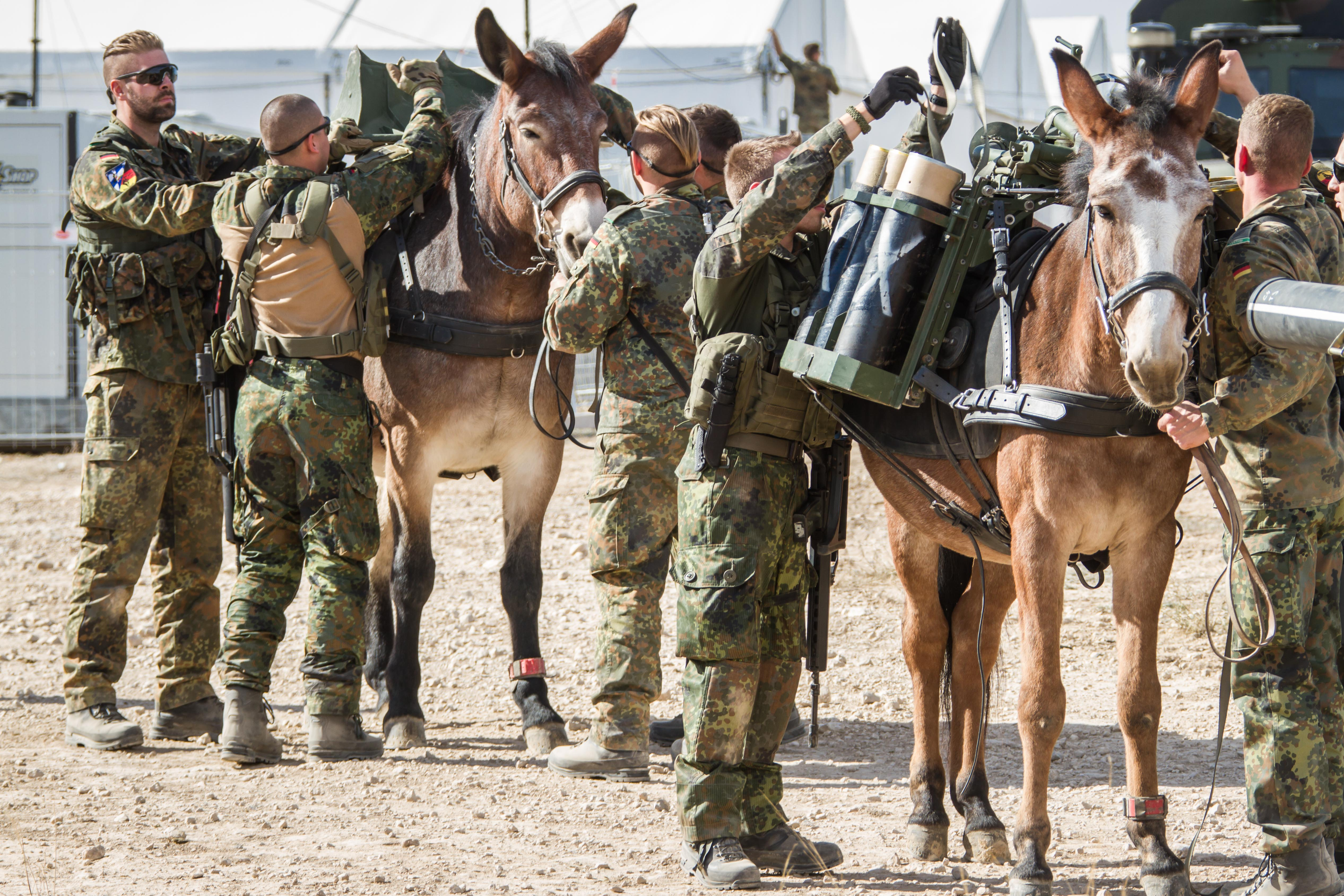 Mountain Infantry Mortar Mules NATO photo by Alexander Markus